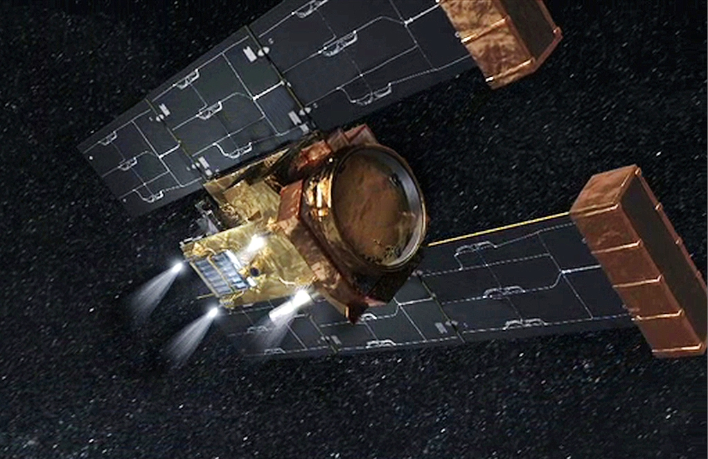 Artist depiction of Stardust during the 'burn-to-depletion' phase which ended the mission and decommissioned the spacecraft on March 24, 2011.